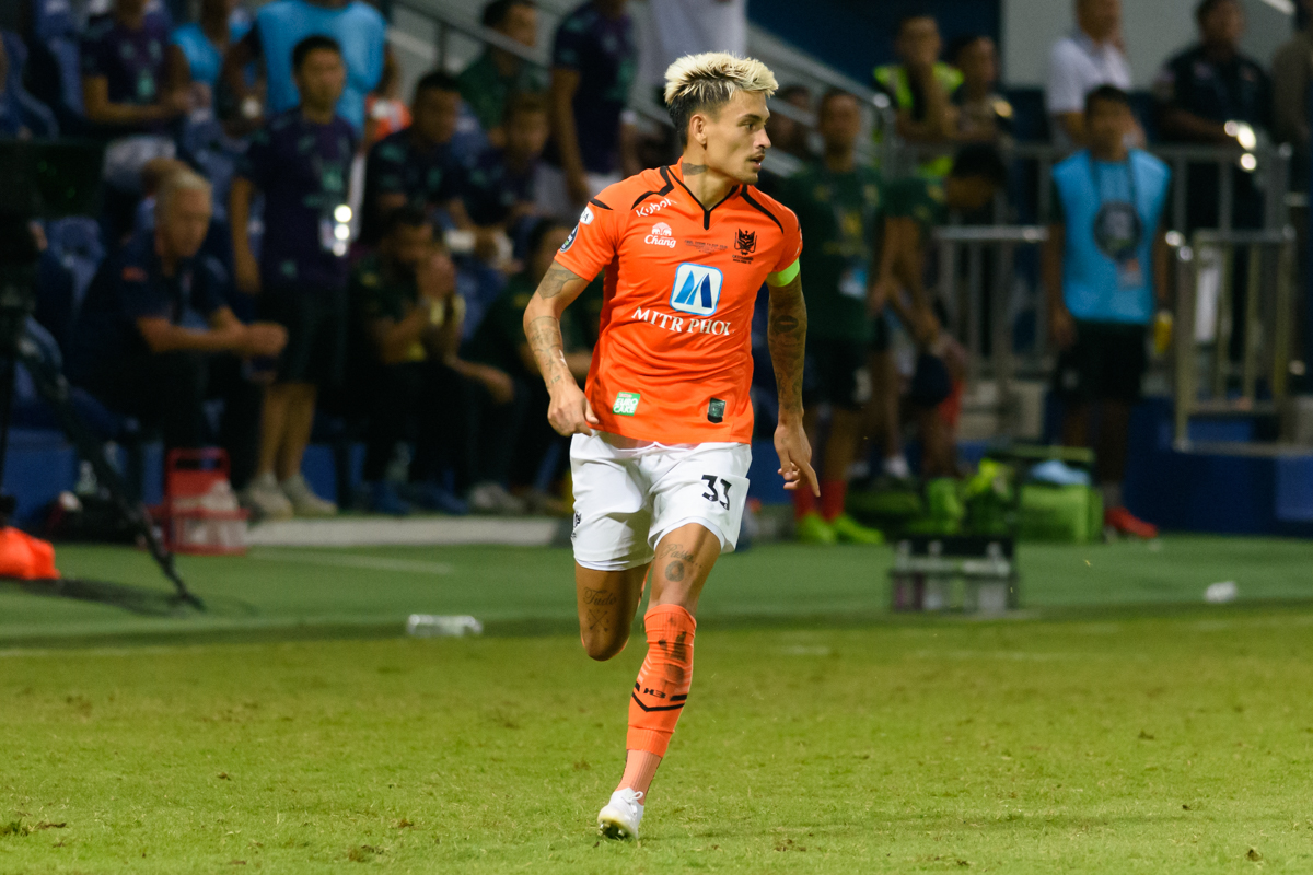 Philip Roller during the Thai FA Cup Final 2019 vs Port FC